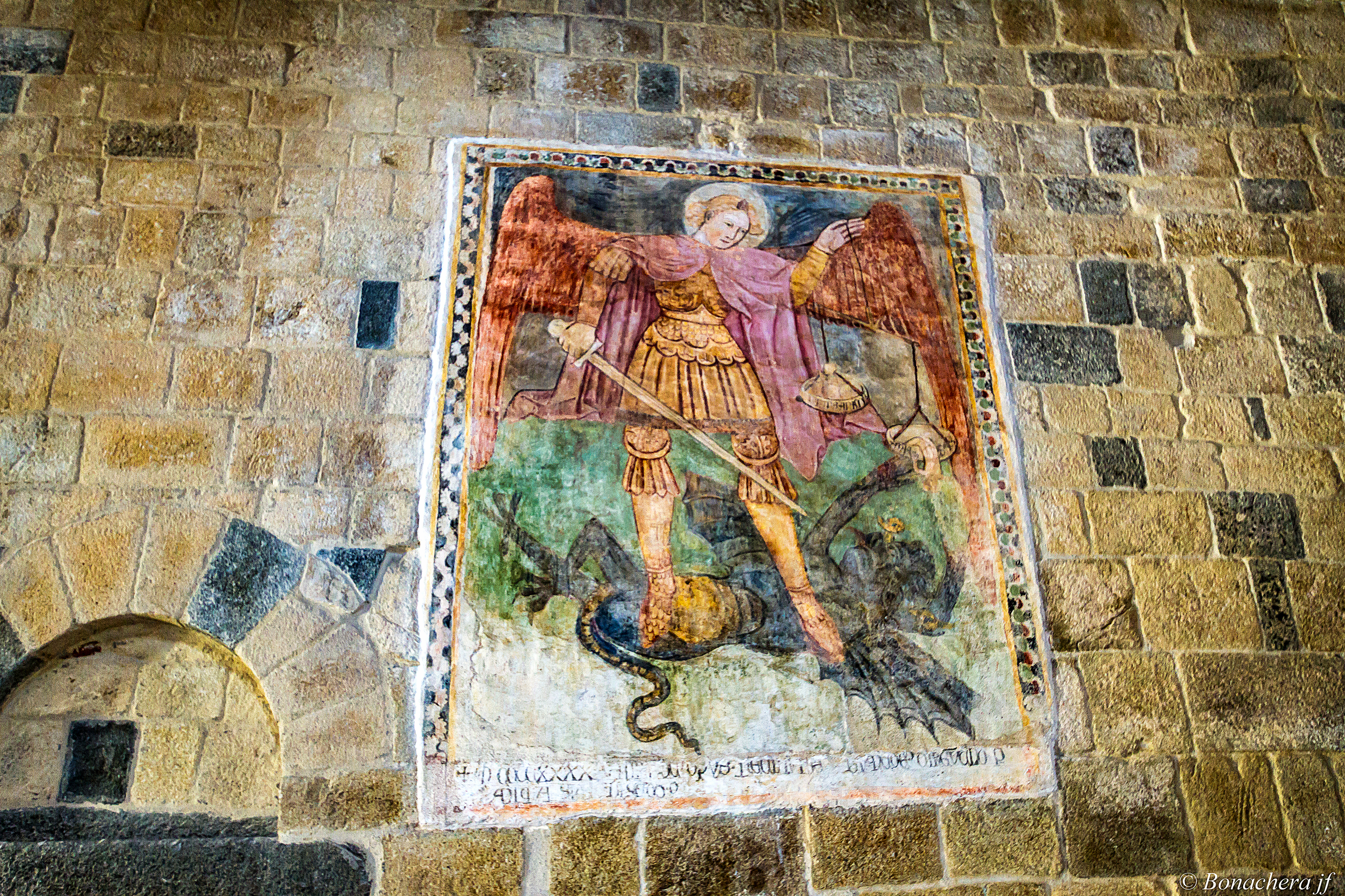 St Michel terrassant le dragon (1448): oeuvre classée